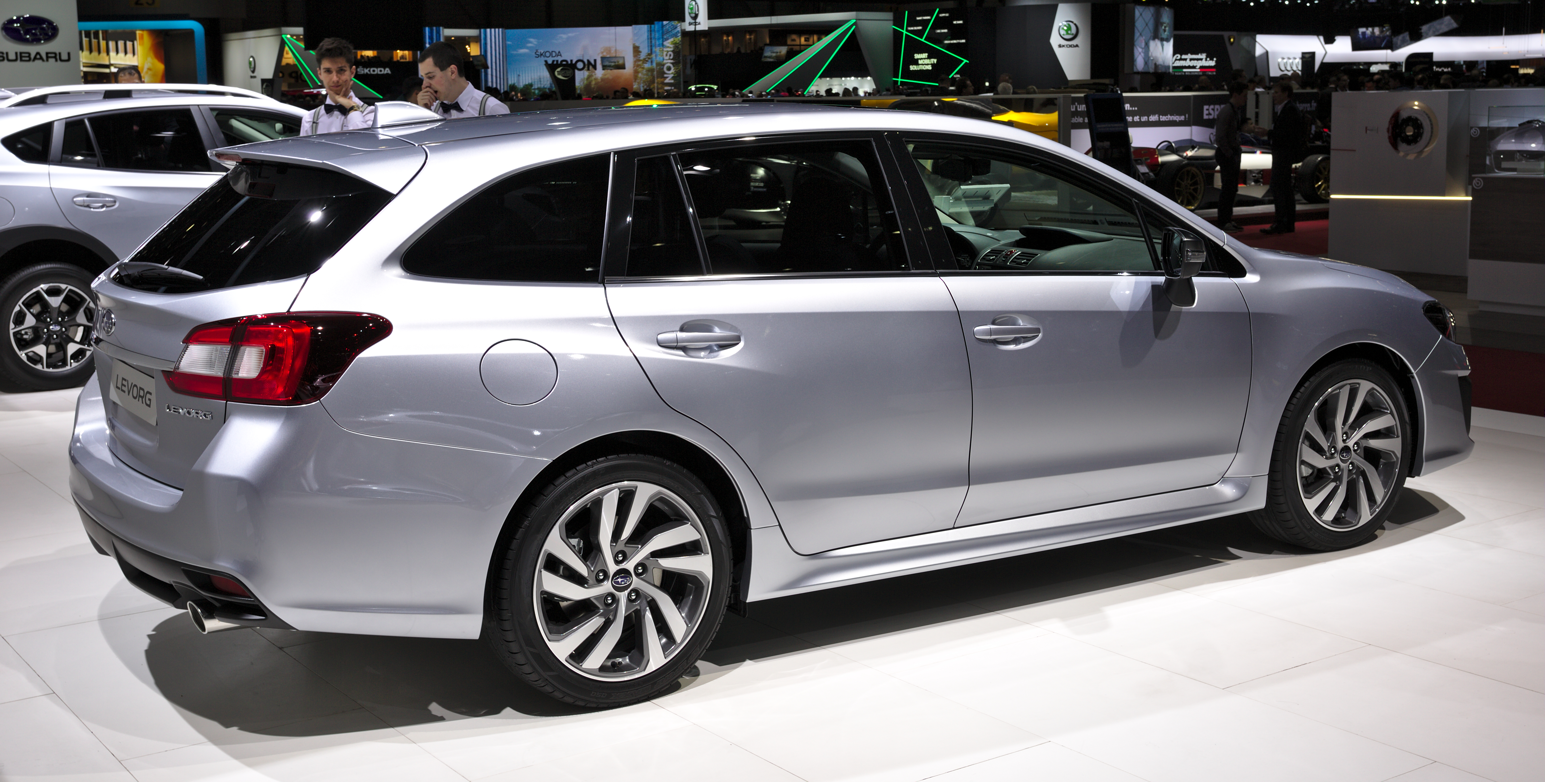 Subaru Levorg at Geneva Motor Show 2019